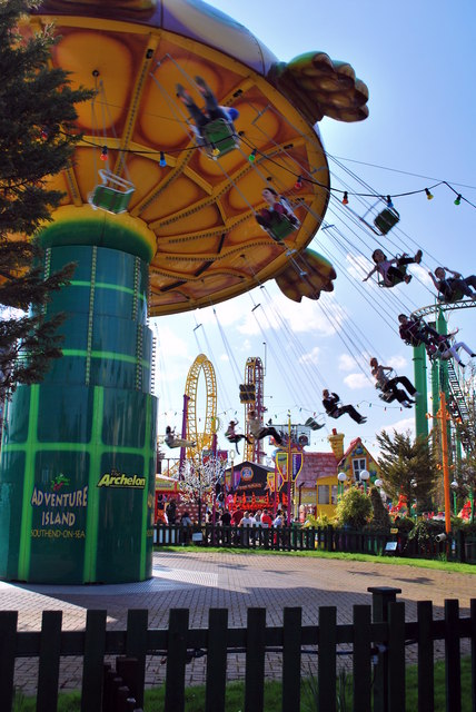 Archelon swing ride A ride at Adventure Island in the shape of a giant turtle